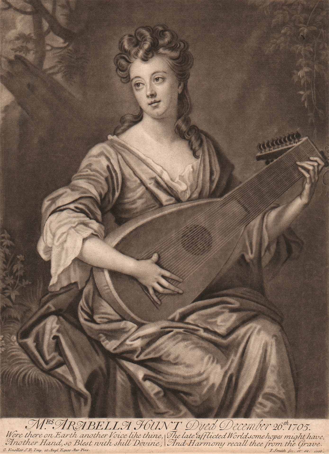 Mrs. Arabella Hunt (c.1706) by John Smith, 1652-1743, British; After Sir Godfrey Kneller, 1646-1723, German, active in Britain (from 1676). Yale Center for British Art, Paul Mellon Collection. Caption: Mrs. Arabella Hunt Dyed December 26th. 1705. Were there on Earth another Voice like thine, Another Hand, so Blest with skill Divine; The late afflicted World some hopes might have, And Harmony recall thee from the grave. G. Kneller S.R.Imp. et Angl. Eques Aur Pinx. I.Smith fec. et ex. 1706.